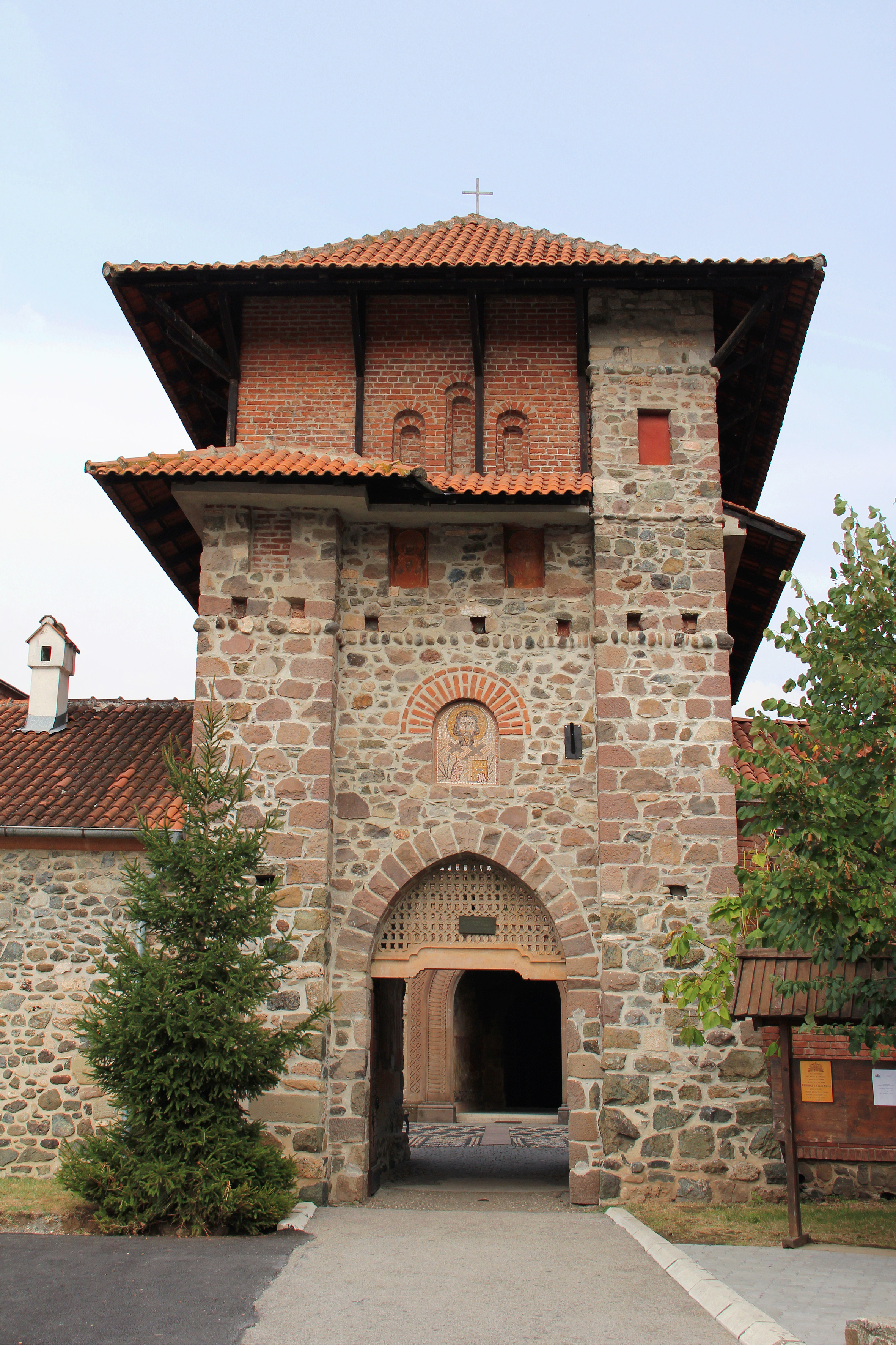 Zica is an early 13th-century Serb Orthodox monastery near Kraljevo, Serbia. The monastery, together with the Church of the Holy Dormition, was built by the first King of Serbia, Stefan the First-Crowned and the first Head of the Serbian Church, Saint Sava.